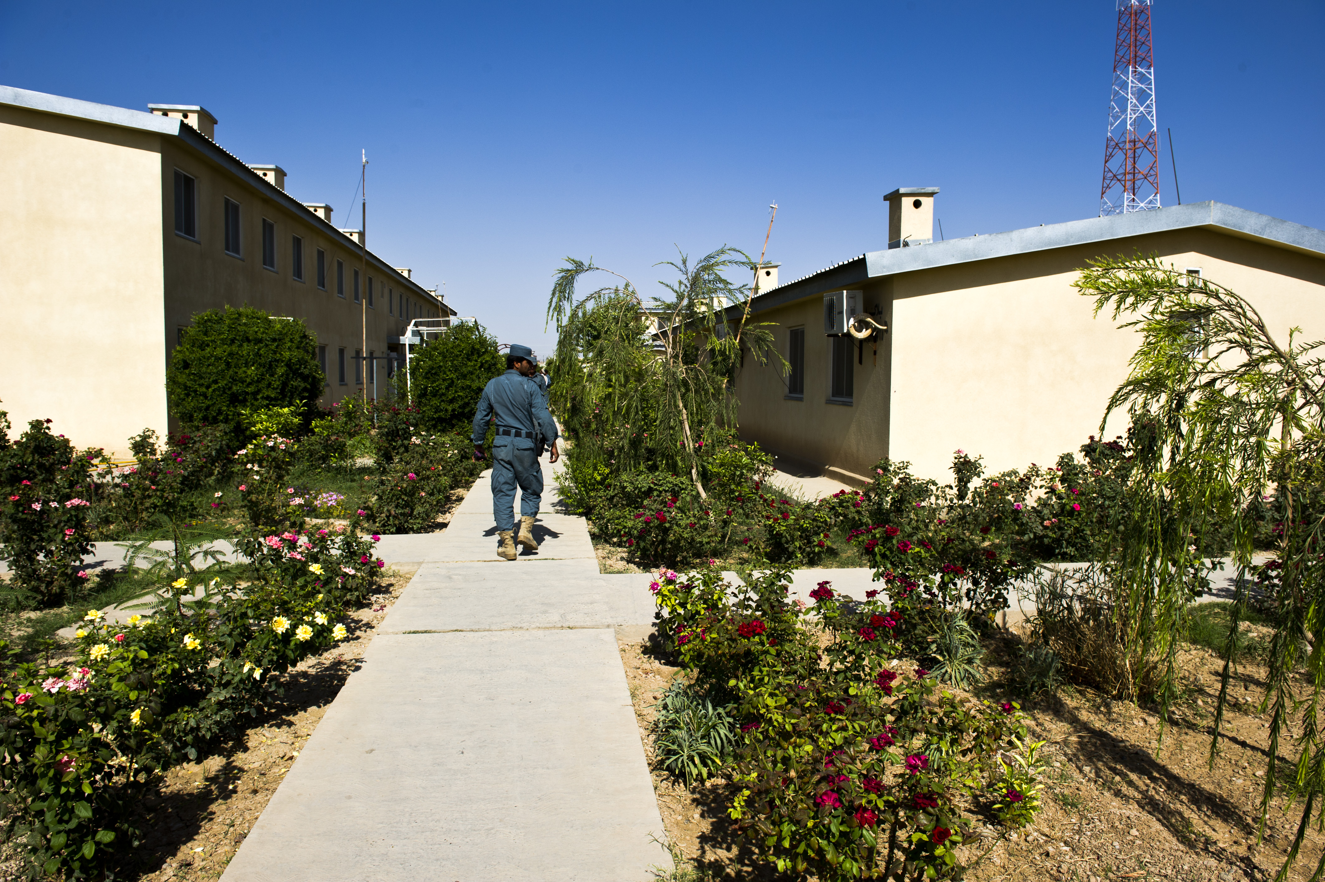 Afghan Uniform Police provincial HQ compound at Lashkar Gah, the capital of Helamand Province in Afghanistan. The Afghans love gardens and flowers--their installations are oases of green and color. (USACE photo, Mark Ray)